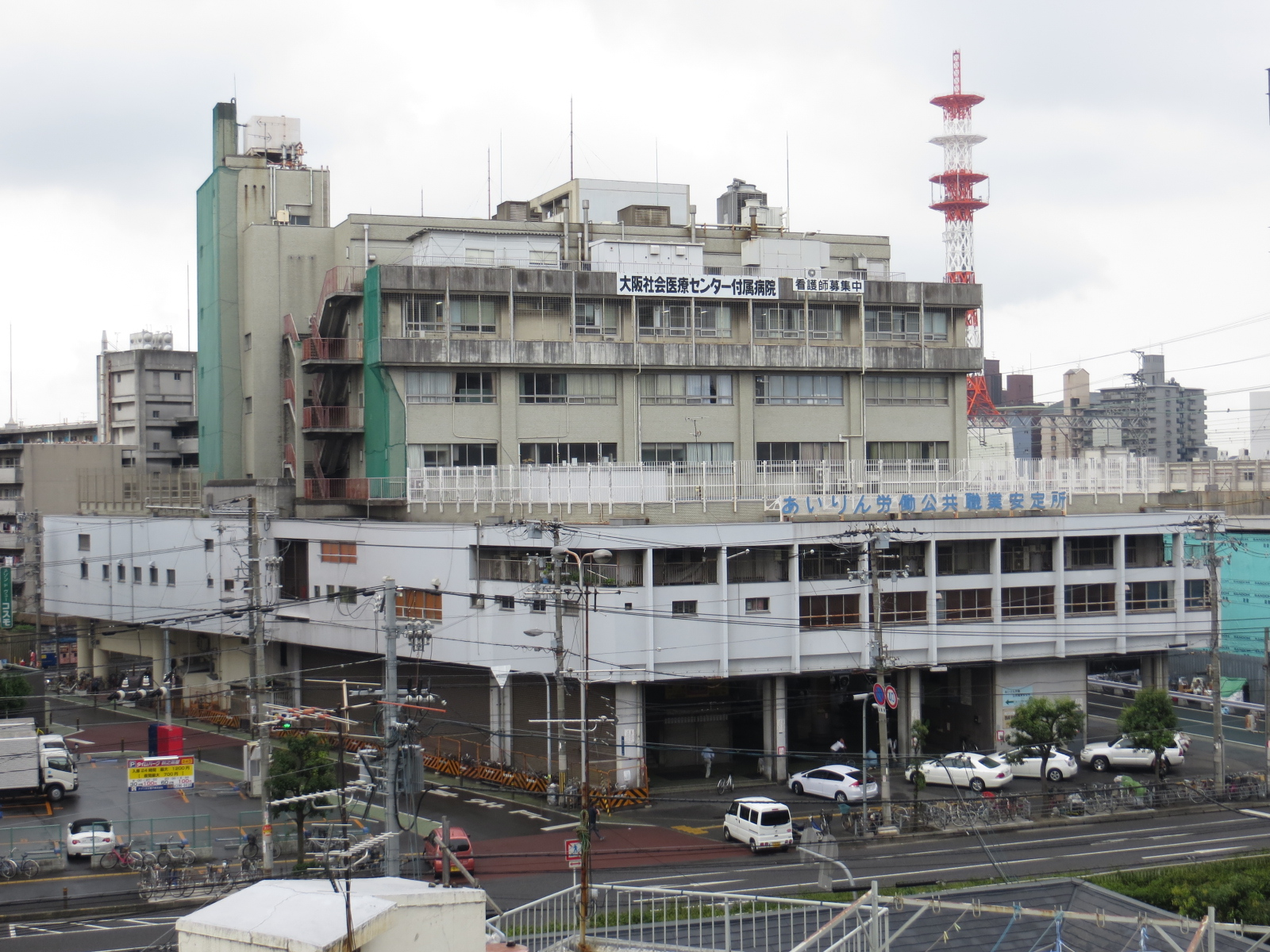 Airin Hello Work, Nishinari-ku, Osaka.